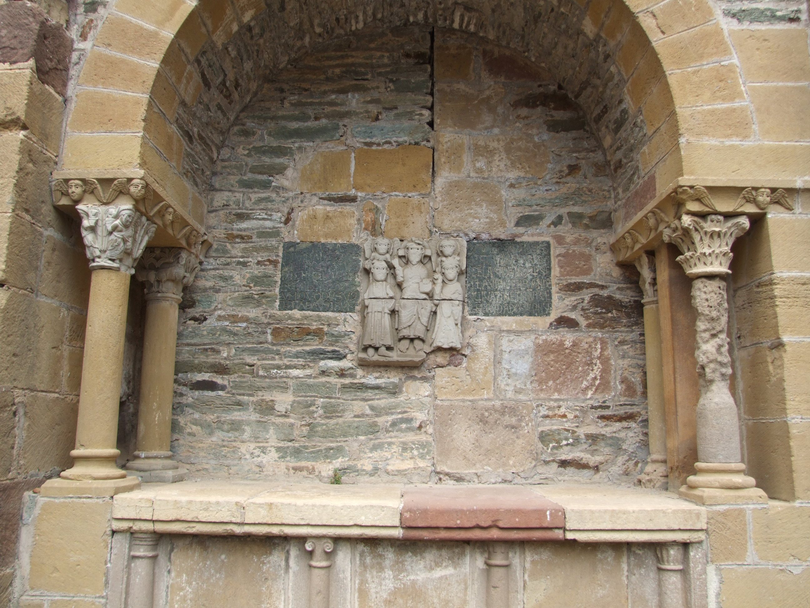 Conques, Aveyron, FRANCE